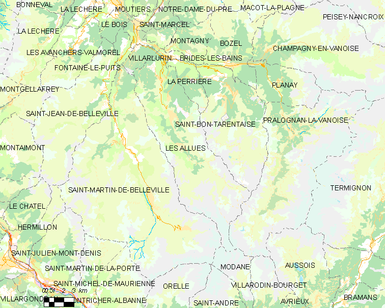 Map of French municipality